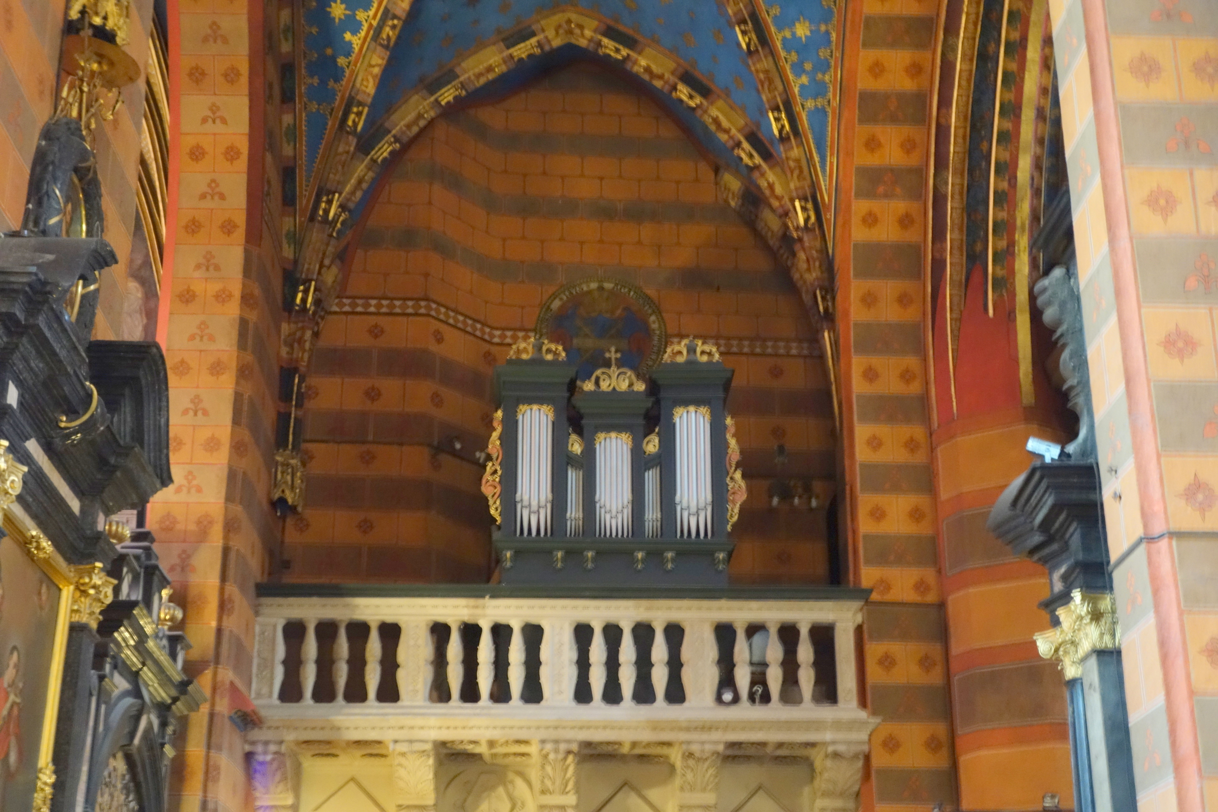 St. Mary's Basilica in Kraków, Poland